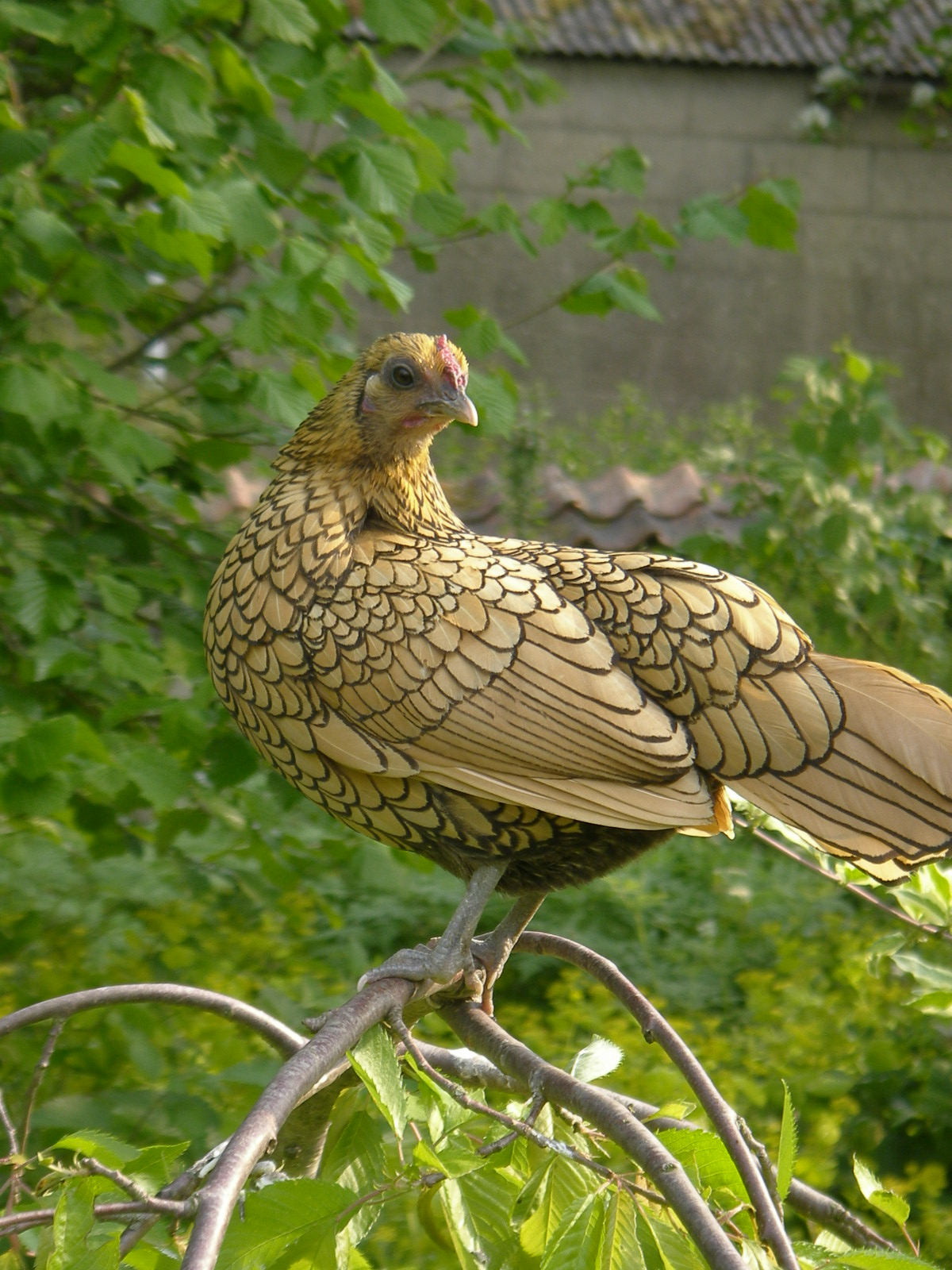 A Golden Sebright hen perches on a branch.